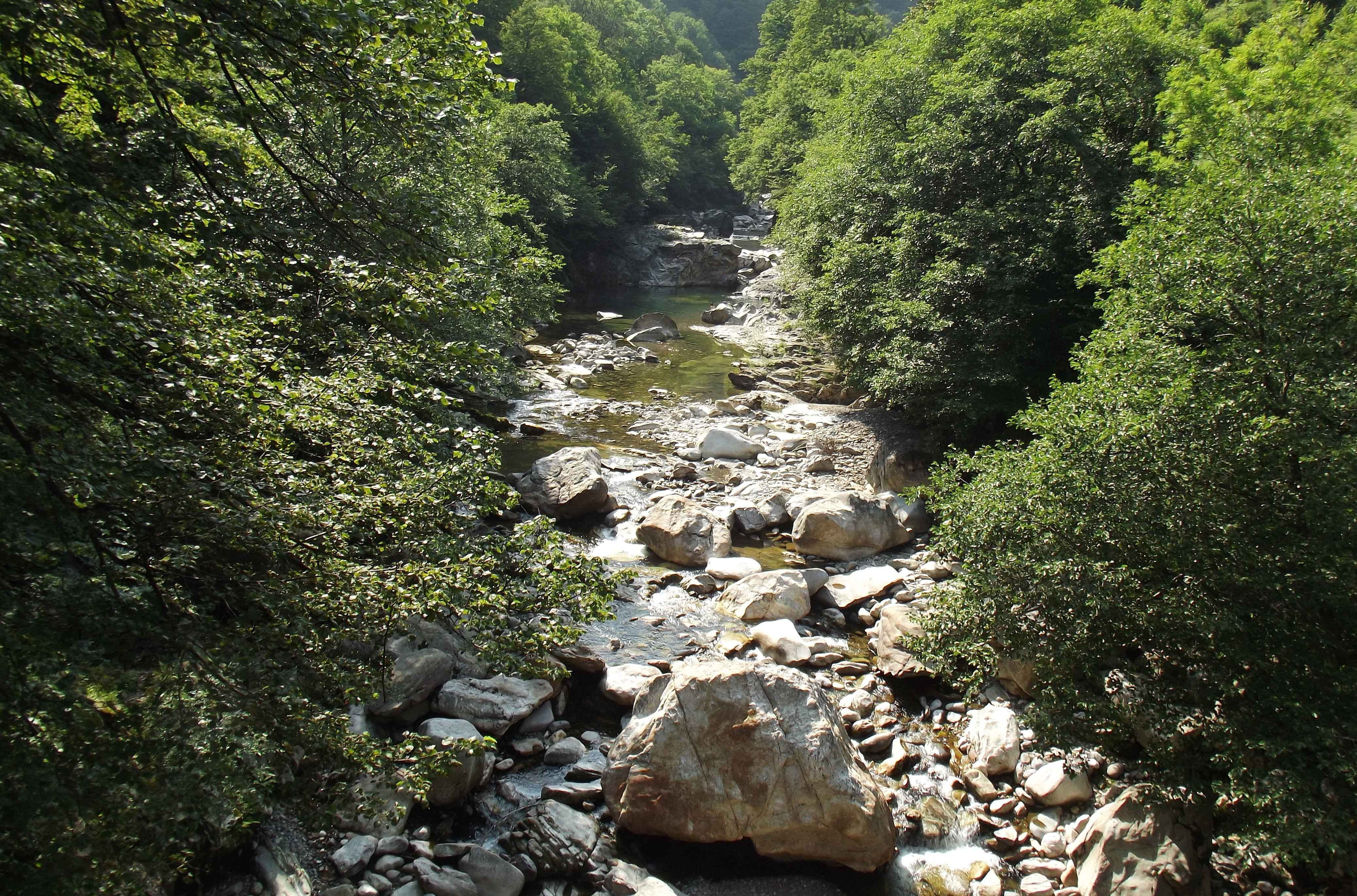 Strona creek near Loreglia (VCO)